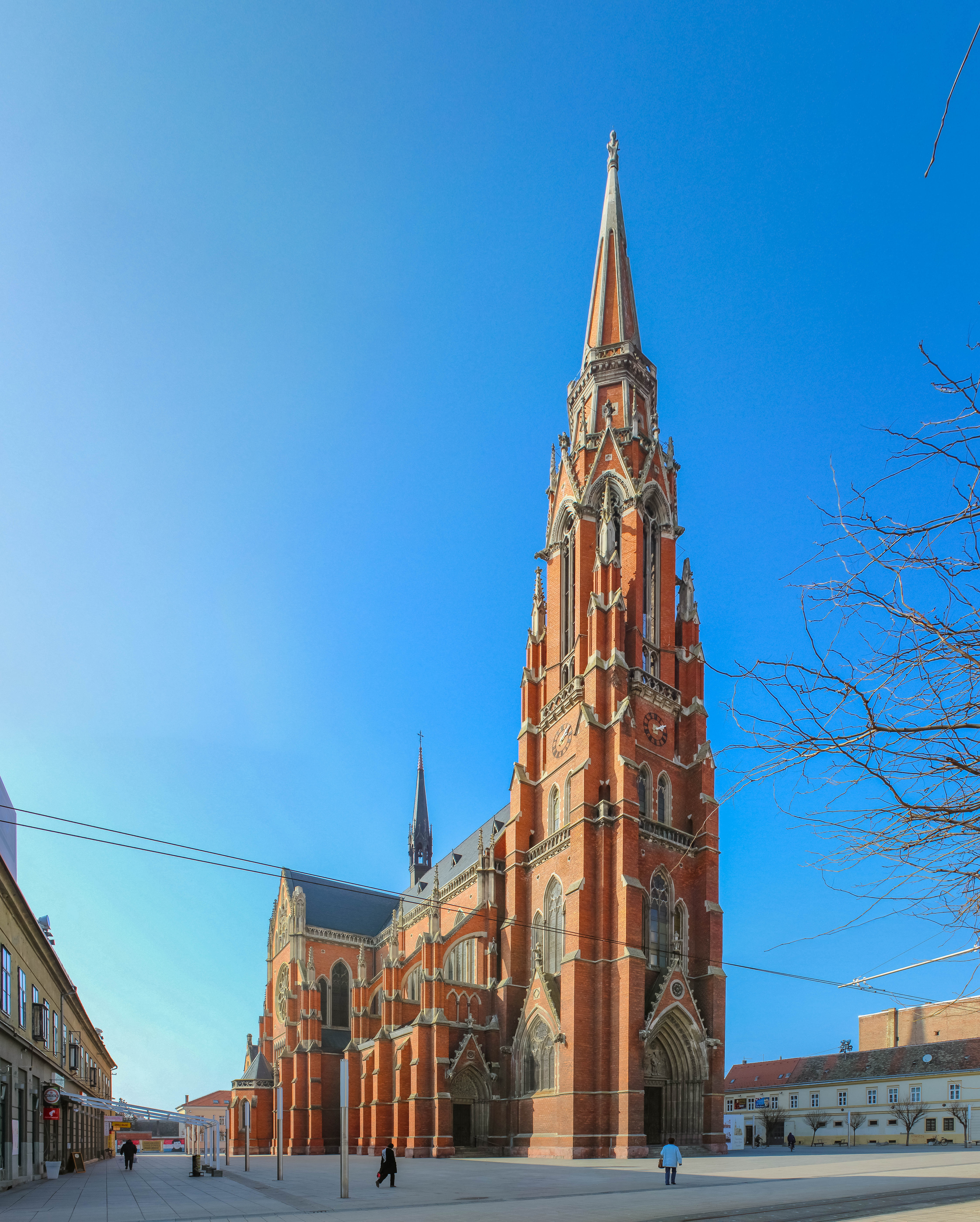 Church